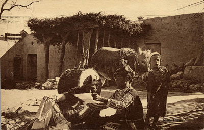 Post card of a group of Alawite musicians from North-Western Syria, (1920's). They were mostly freelance groups that paticipated in Wedding celebrations, national and religious holidays, traveling between different villages and towns.